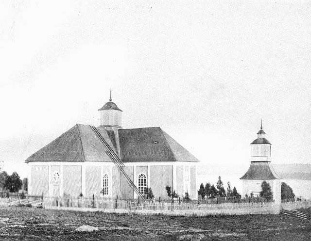 The old church of Haapavesi was built 1784. The church was destroyed in a fire in 1981.